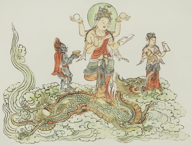 The bodhisattva Myōken, from the Entsūji manuscript of the Zuzōshō (高野山真別所円通寺本 図像抄, "Selections of Iconographical Drawings"), as reproduced in the Taishō Shinshū Daizōkyō Zuzō-bu (大正新脩大藏經 圖像部), vol. 3.